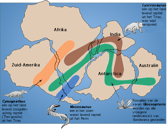 Continental drift fossil evidence. As noted by Snider-Pellegrini and Alfred Wegener, the locations of certain fossil plants and animals on present-day, widely separated continents would form definite patterns (shown by the bands of colors), if the continents are rejoined.